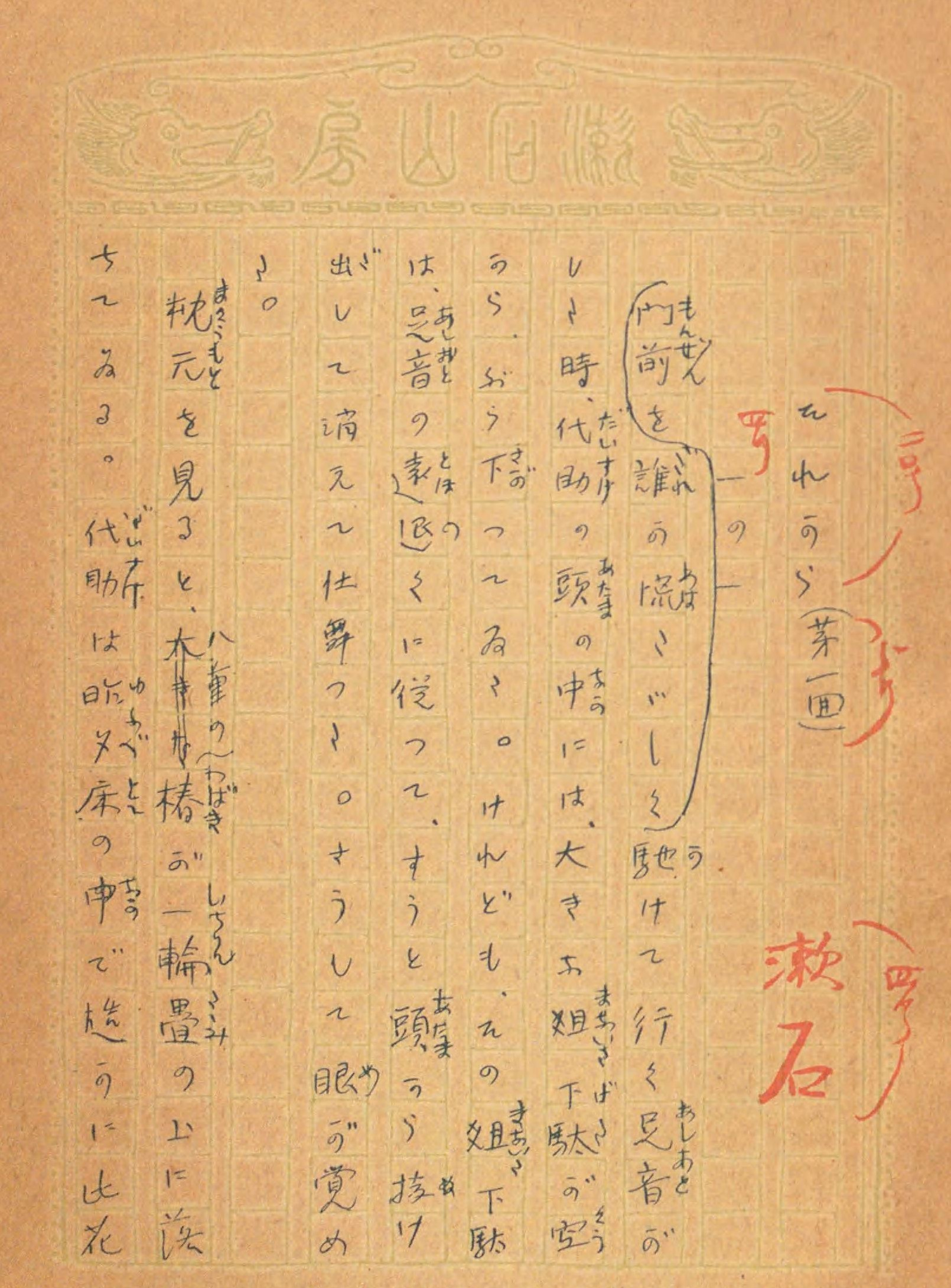 Part of manuscripts of "And Then" by Natsume Soseki.